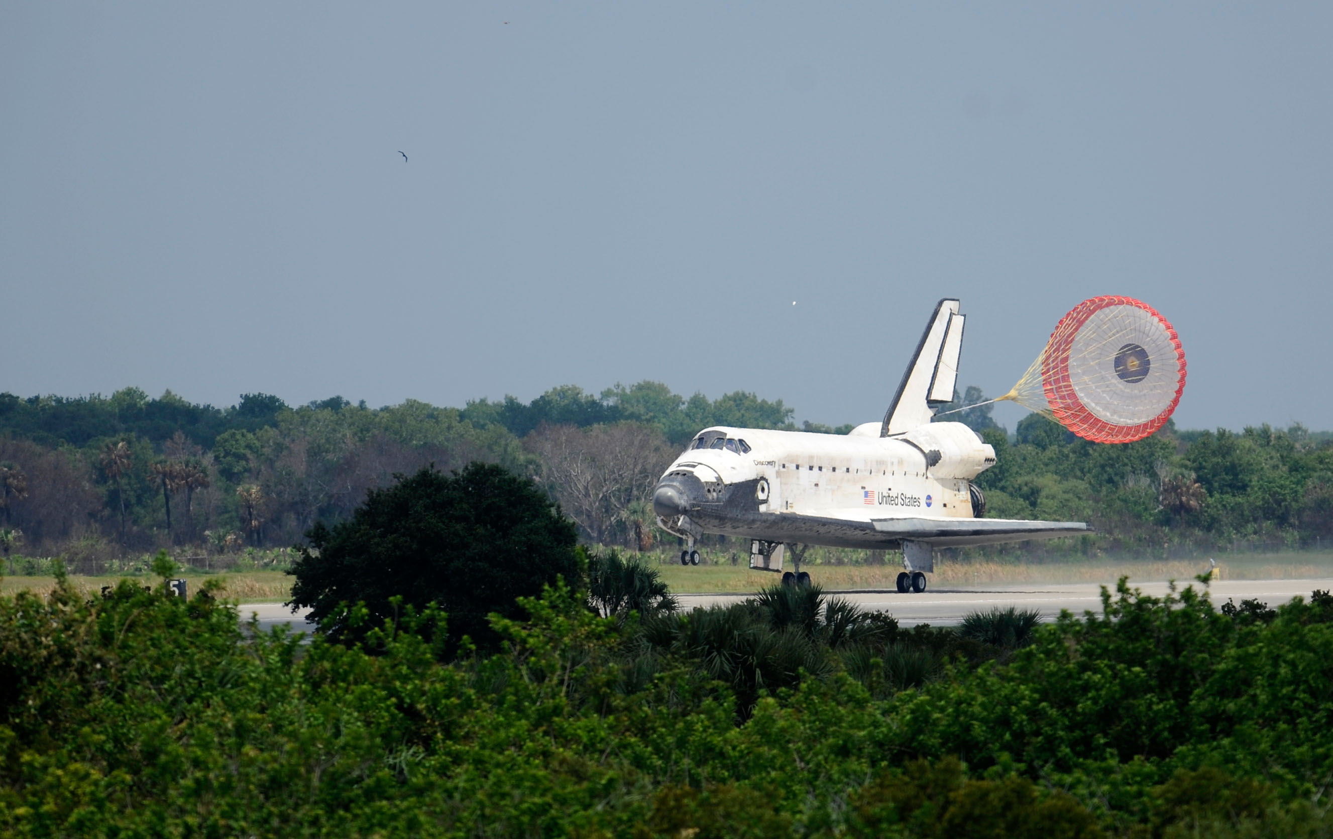 Space Shuttle Discovery's drag chute is deployed as the spacecraft rolls toward wheels stop on runway 15 of the Shuttle Landing Facility at NASA's Kennedy Space Center, concluding the 14-day STS-124 mission to the International Space Station. Onboard are NASA astronauts Mark Kelly, commander; Ken Ham, pilot; Mike Fossum, Ron Garan, Karen Nyberg, Garrett Reisman and Japan Aerospace Exploration Agency astronaut Akihiko Hoshide, all mission specialists. The main landing gear touched down at 11:15:19 a.m. (EDT) on June 14, 2008. The nose landing gear touched down at 11:15:30 a.m. and wheel stop was at 11:16:19 a.m. During the mission, Discovery's crew installed the Japan Aerospace Exploration Agency's large Kibo laboratory and its remote manipulator system leaving a larger space station and one with increased science capabilities.